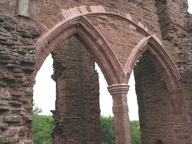 Window arches, the solar, Goodrich Castle